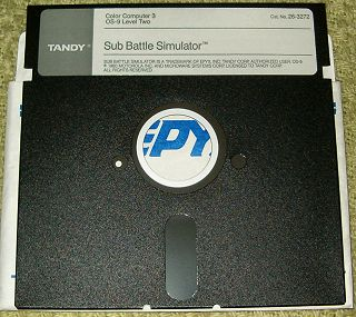 A "flippy" floppy disk of the Tandy Color Computer 3 / OS-9 version of Epix's "Sub Battle Simulator" from 1987